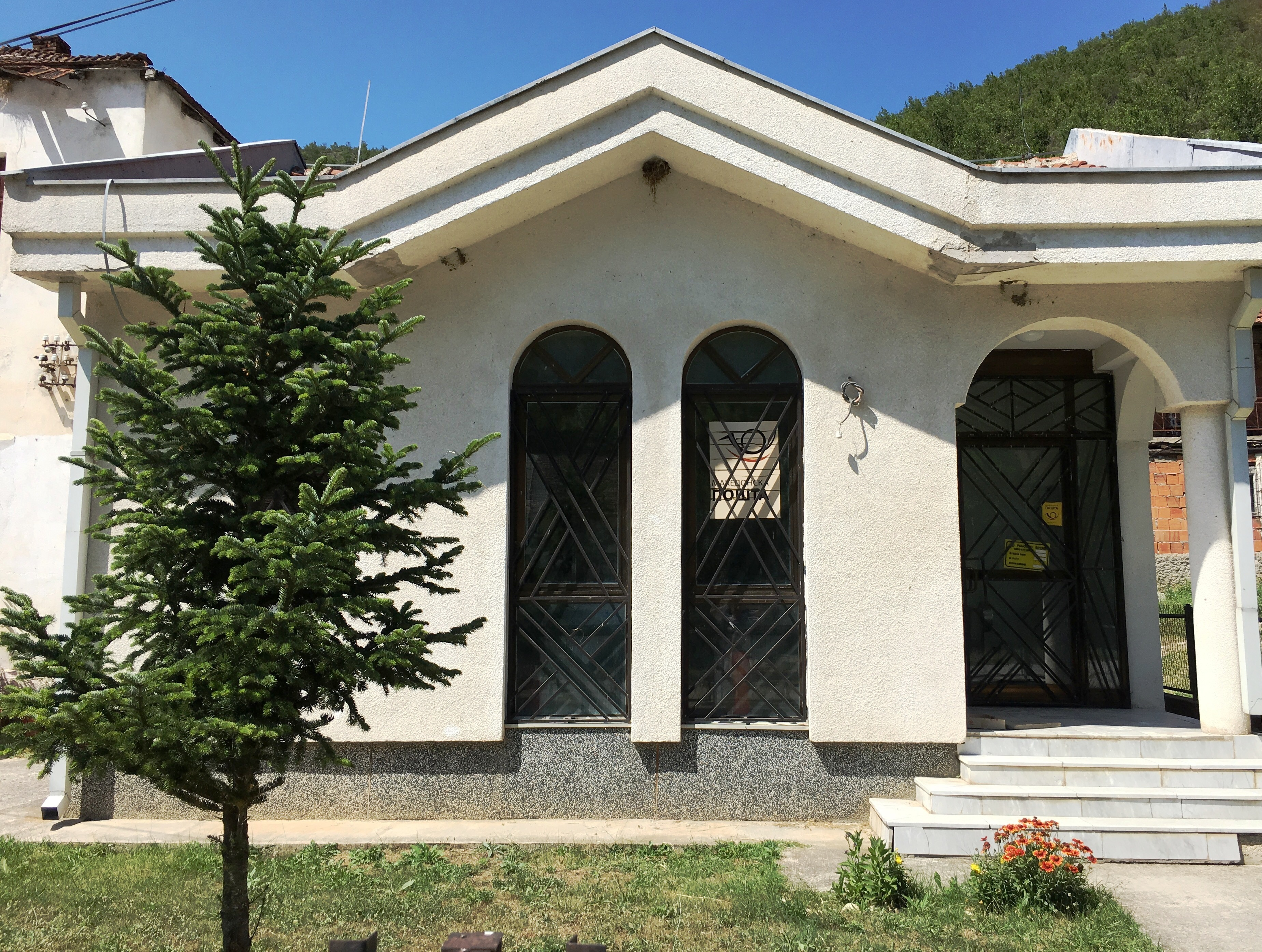 The post office in the village of Dolni Manastirec